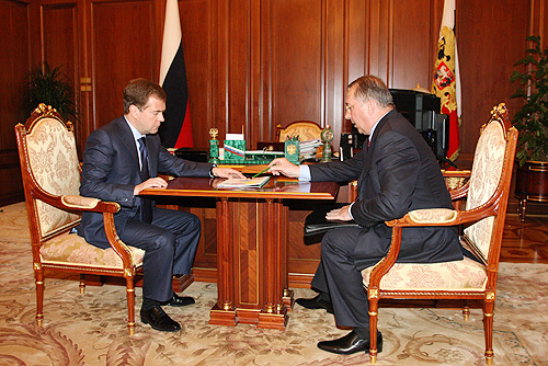 THE KREMLIN, MOSCOW. With president of Transneft Nikolai Tokarev.